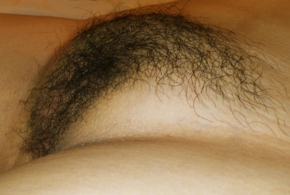 Showing female Mons Pubis / Mons Venus.